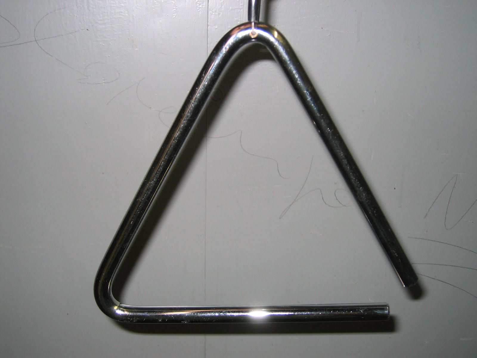 Triangle (instrument)